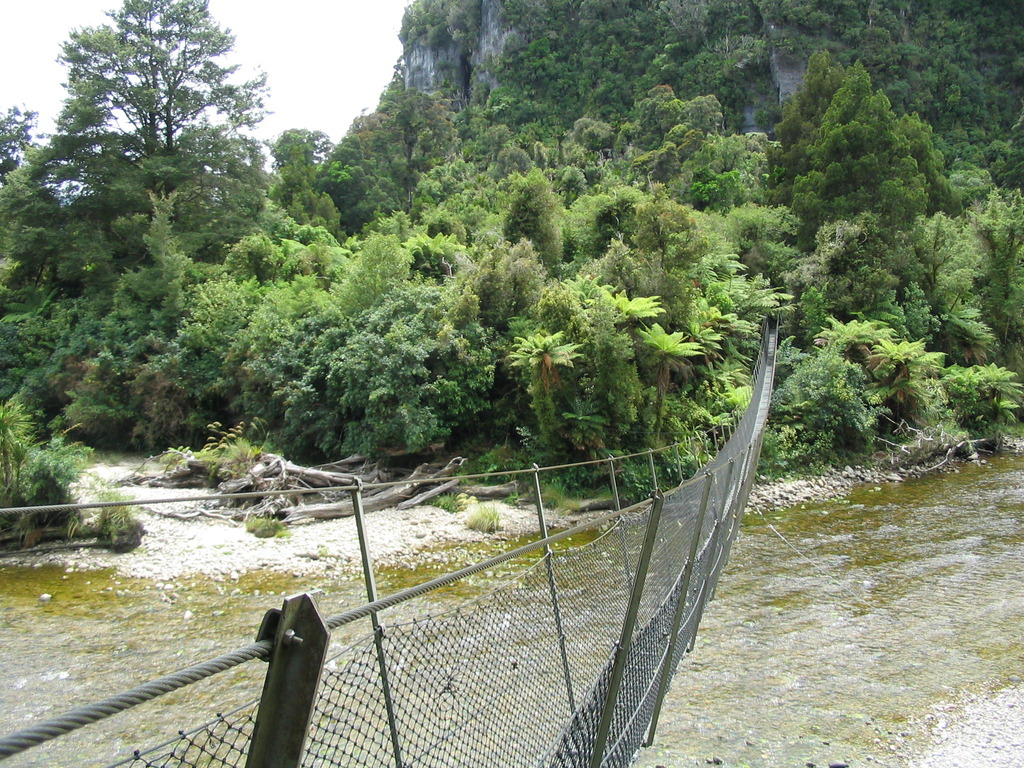 Swing bridge across the Gunner River in the Buller District of New Zealand. Part of the Heaphy Track.